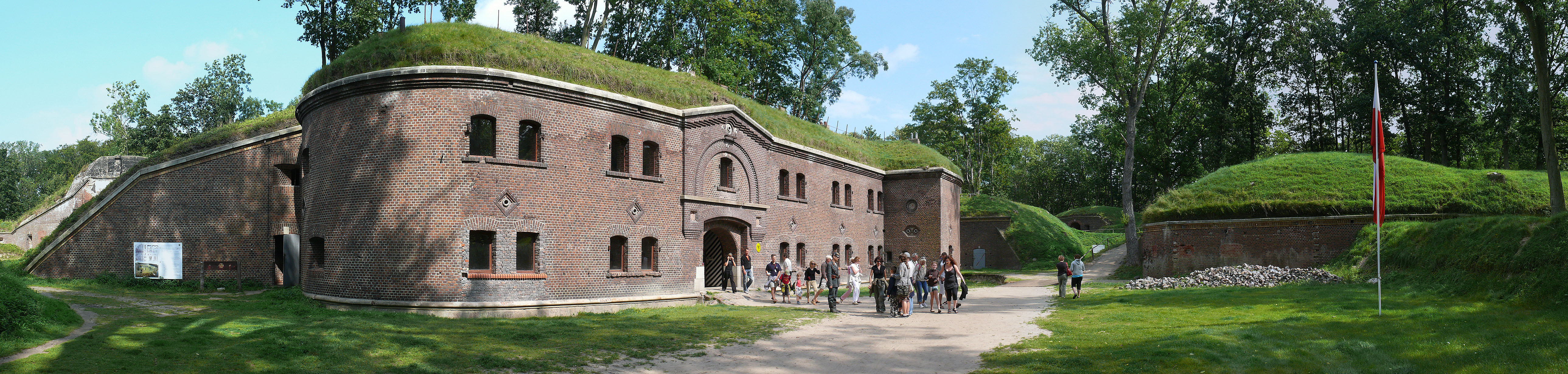 Redita Fortu Gerharda- siedziba Muzeum Obrony Wybrzeża w Świnoujściu.